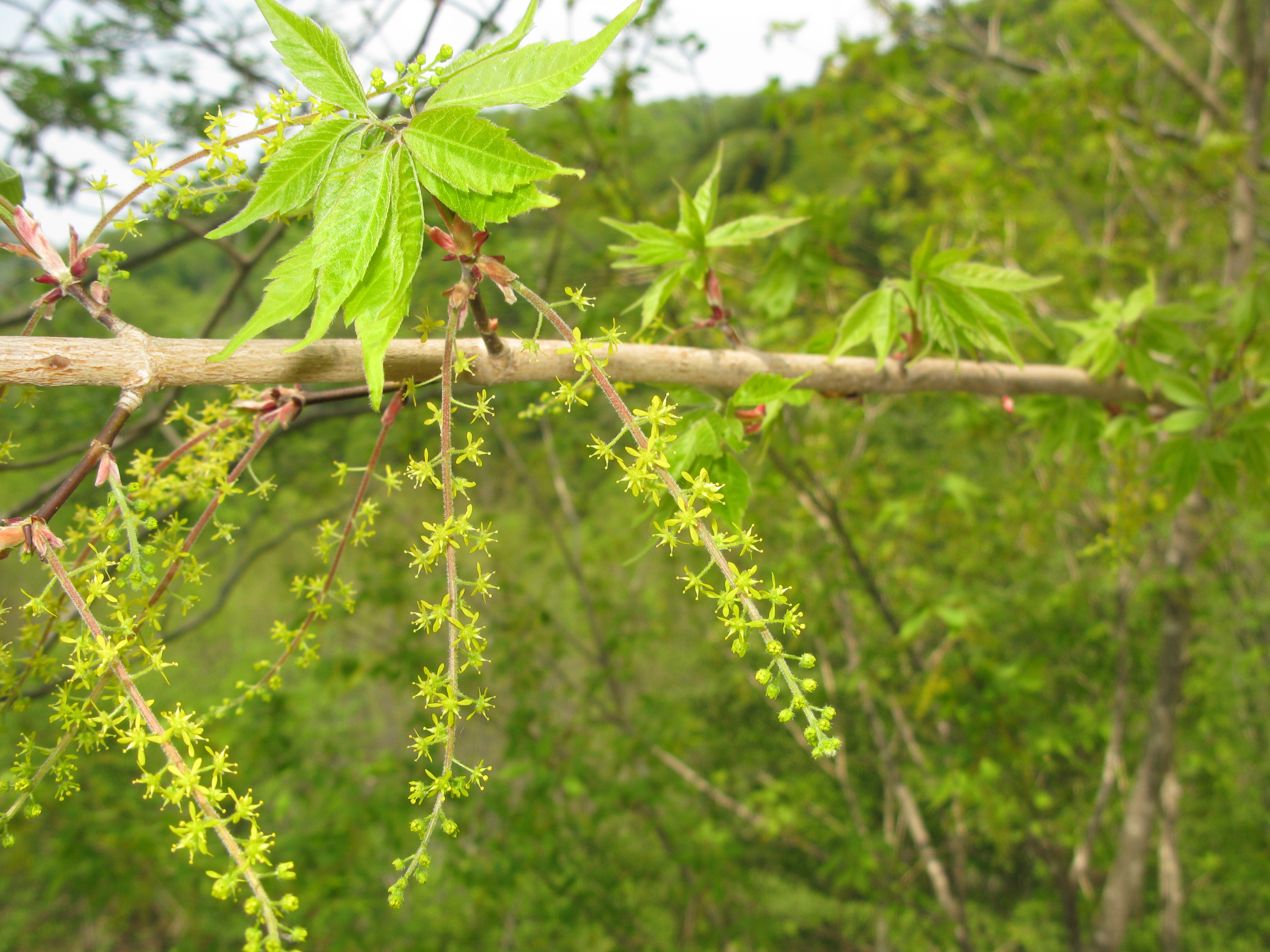 Acer cissifolium,Aizu area, Fukushima pref., Japan